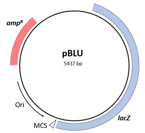 A graphic map of the plasmid pBLU.